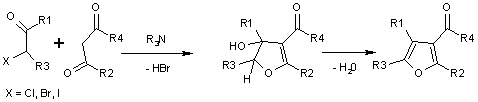 Fiest-Benary synthesis of furan